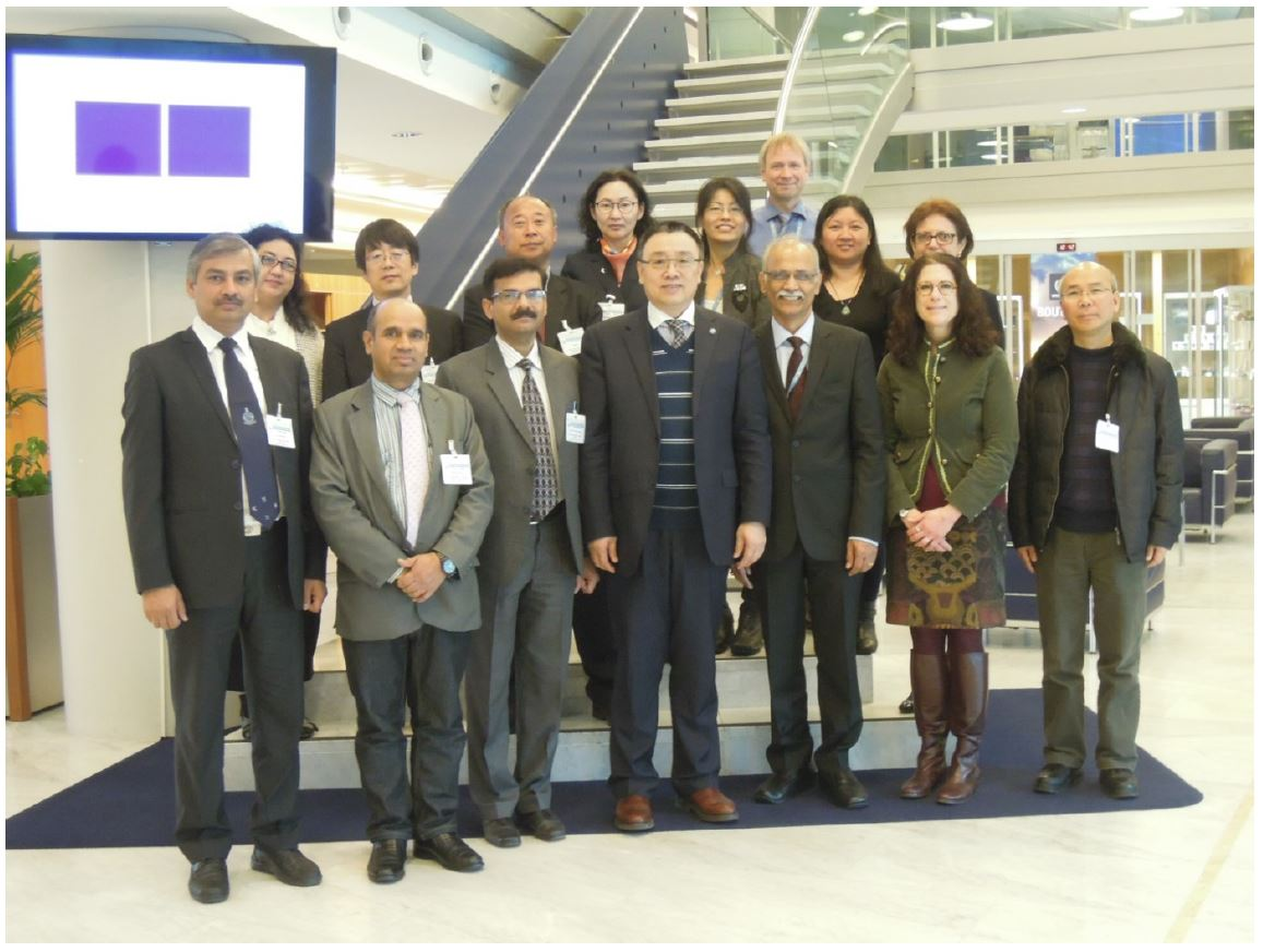 TP-RCC Network Establishing Group at the WMO Headquarters Office, Geneva Switzerland (28-03-2018)